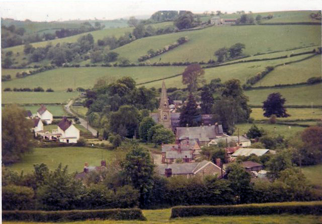 Llandyssil, Montgomery 1971